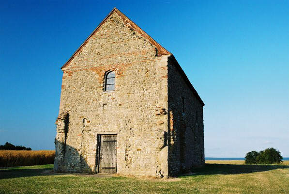 Chapel of St Peter-on-the-Wall, Bradwell-on-Sea, Essex, England. Photo by Michael Rogers, 2002, who retains copyright and releases the image under the GFDL.